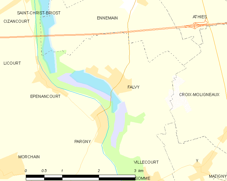 Map of French municipality Falvy